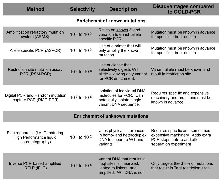 Alternative methods to COLD-PCR